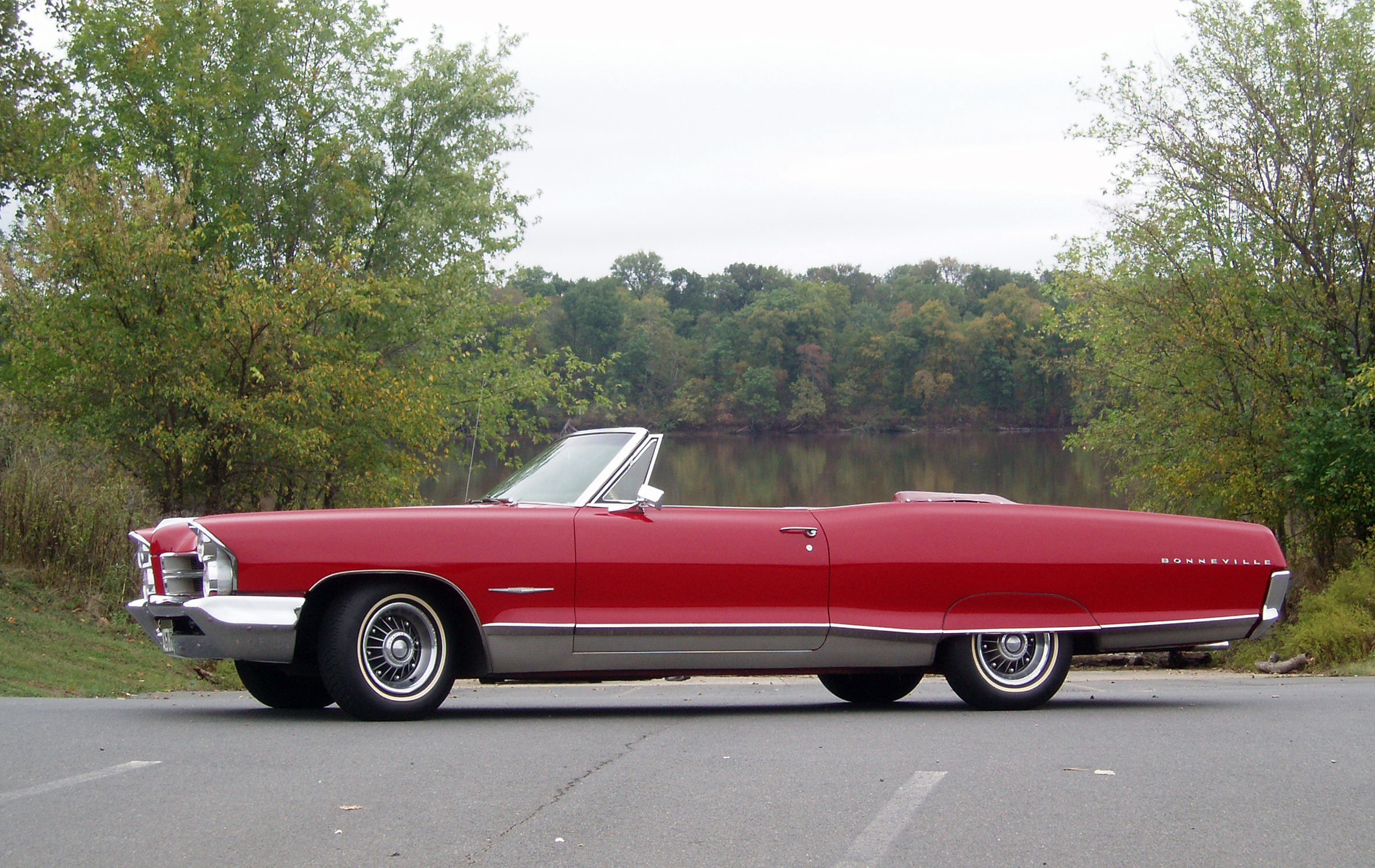 A 1965 Pontiac Bonneville convertible shot taken in November, 2005 along side the Potomac River section of Sterling, VA. Color is Montero Red.